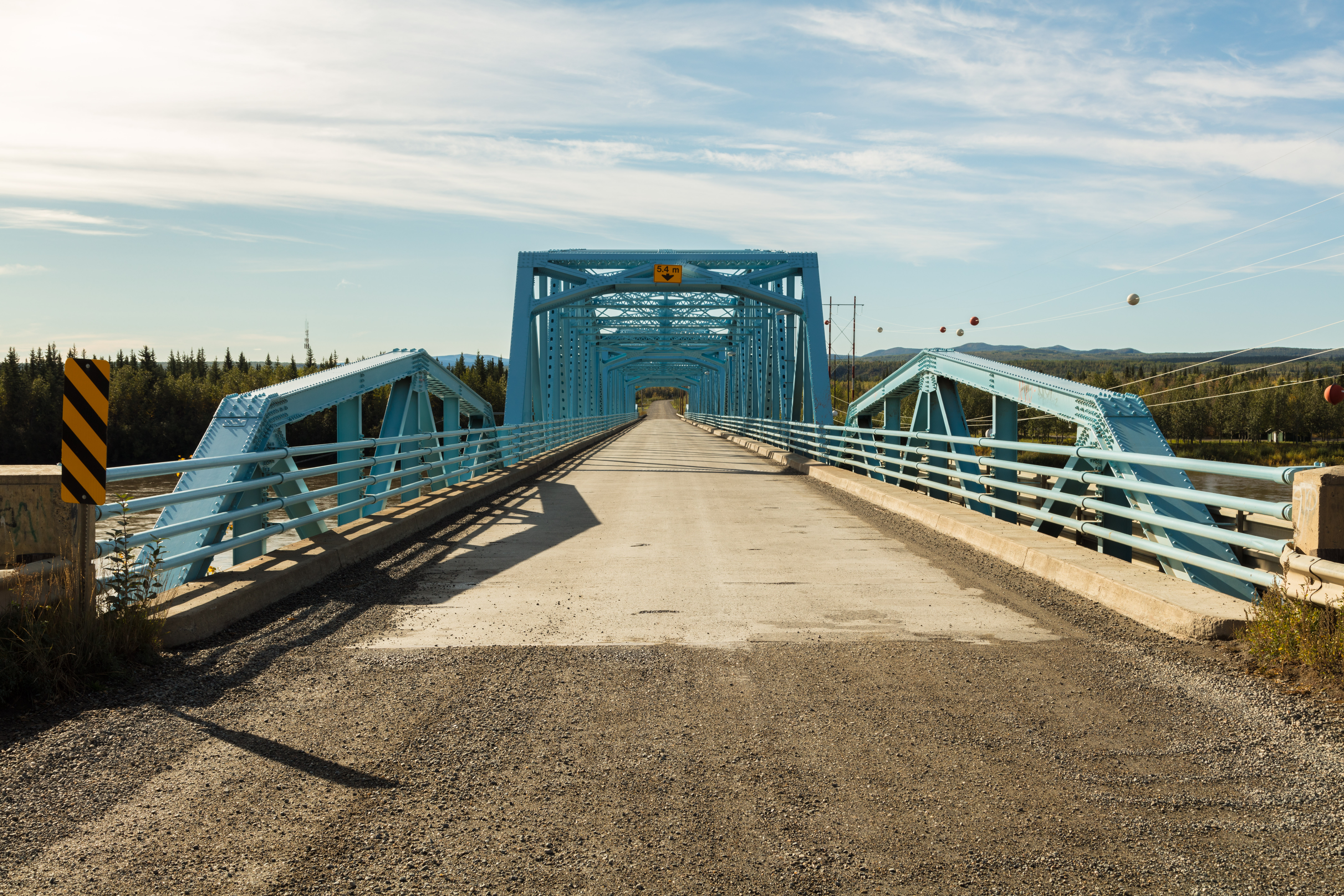 Bridge over the Pelly River, Pelly Crossing, Yukon, Canada